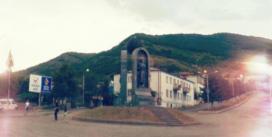 Akhalgori3